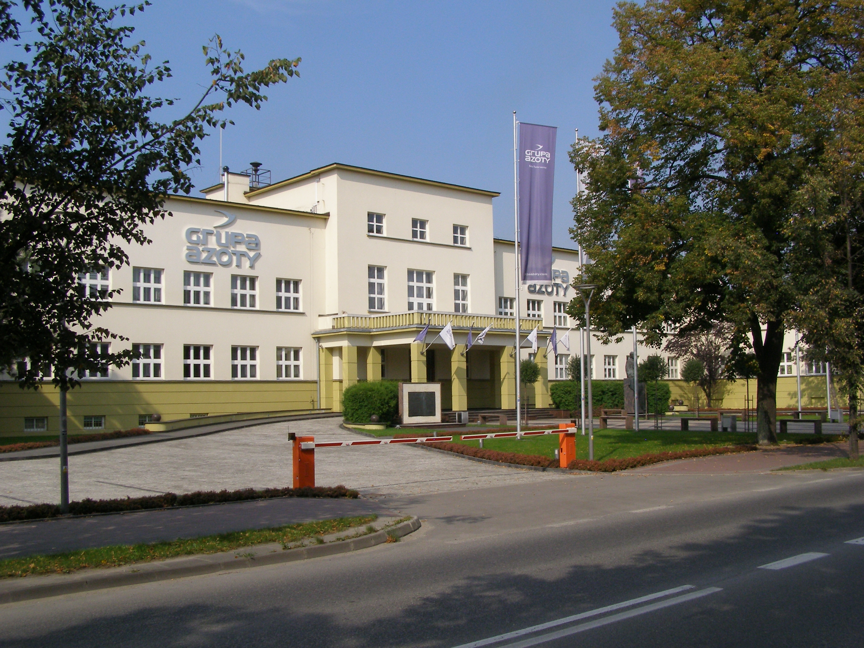 Tarnów - building of the Nitrogen Compounds Factory